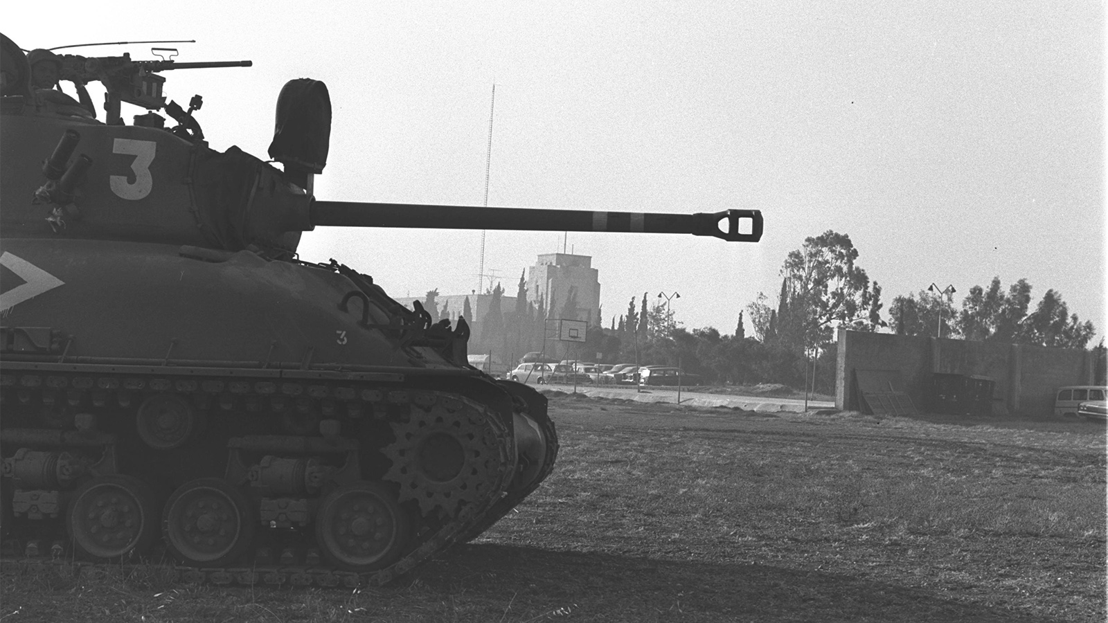 טנק סופר שרמן של פלוגת הטנקים הסודית בארמון הנציב בירושלים במהלך מלחמת ששת הימים